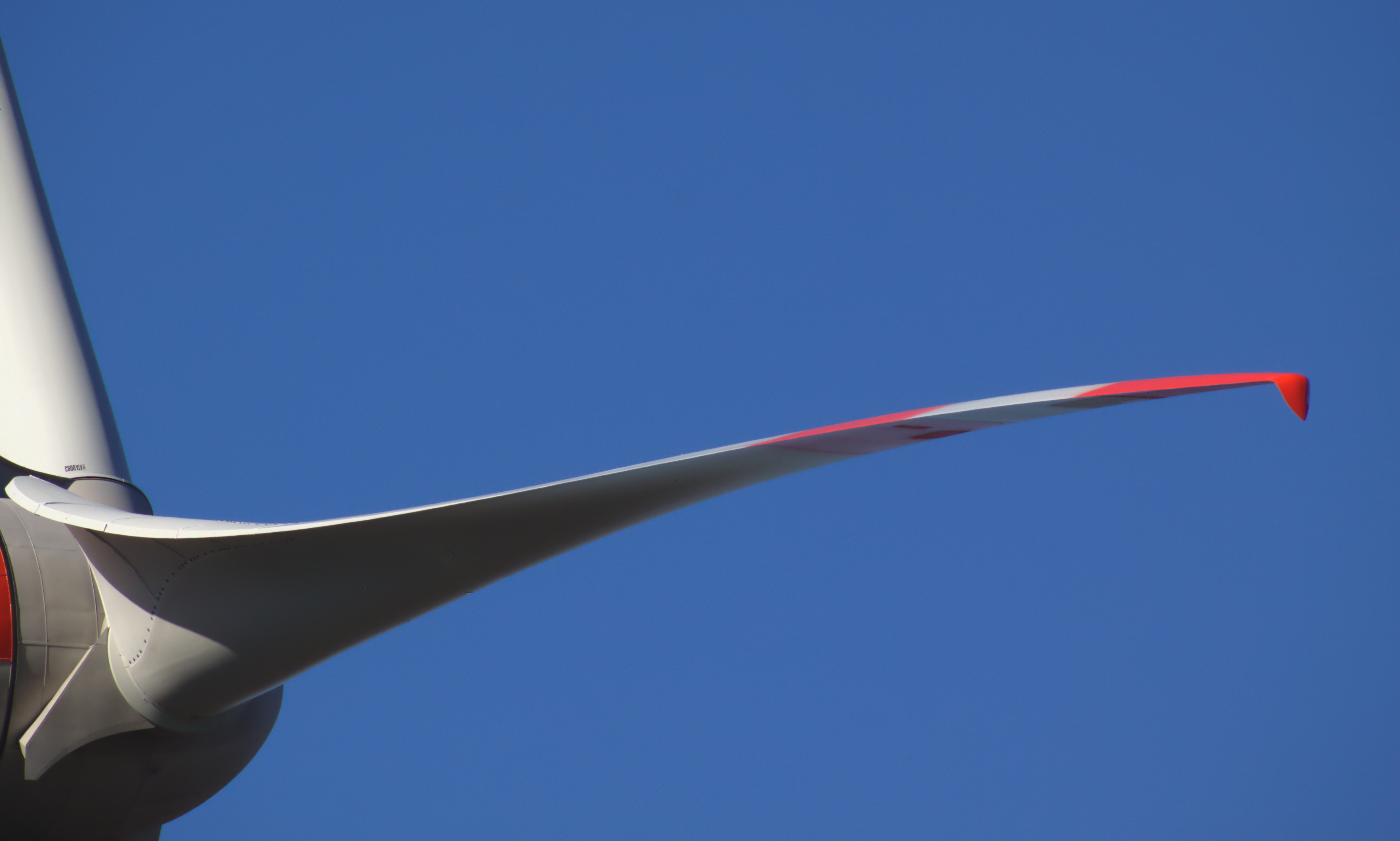 Rotor blade of an E-101 by Enercon. The photo was taken in Saerbeck, Germany.